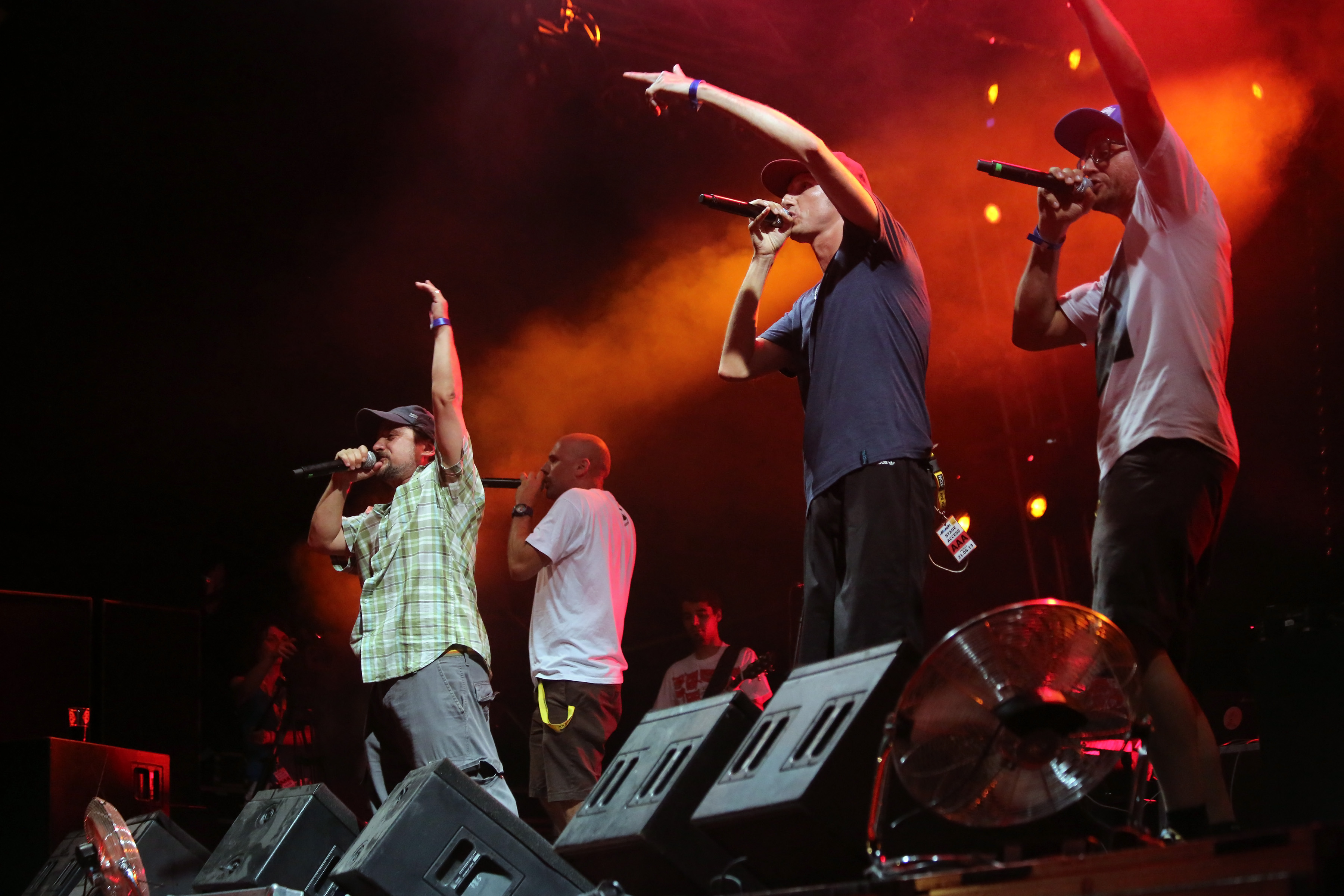 Texta feat. SK Ambassadors - Donauinselfest 2013 in Vienna, Austria